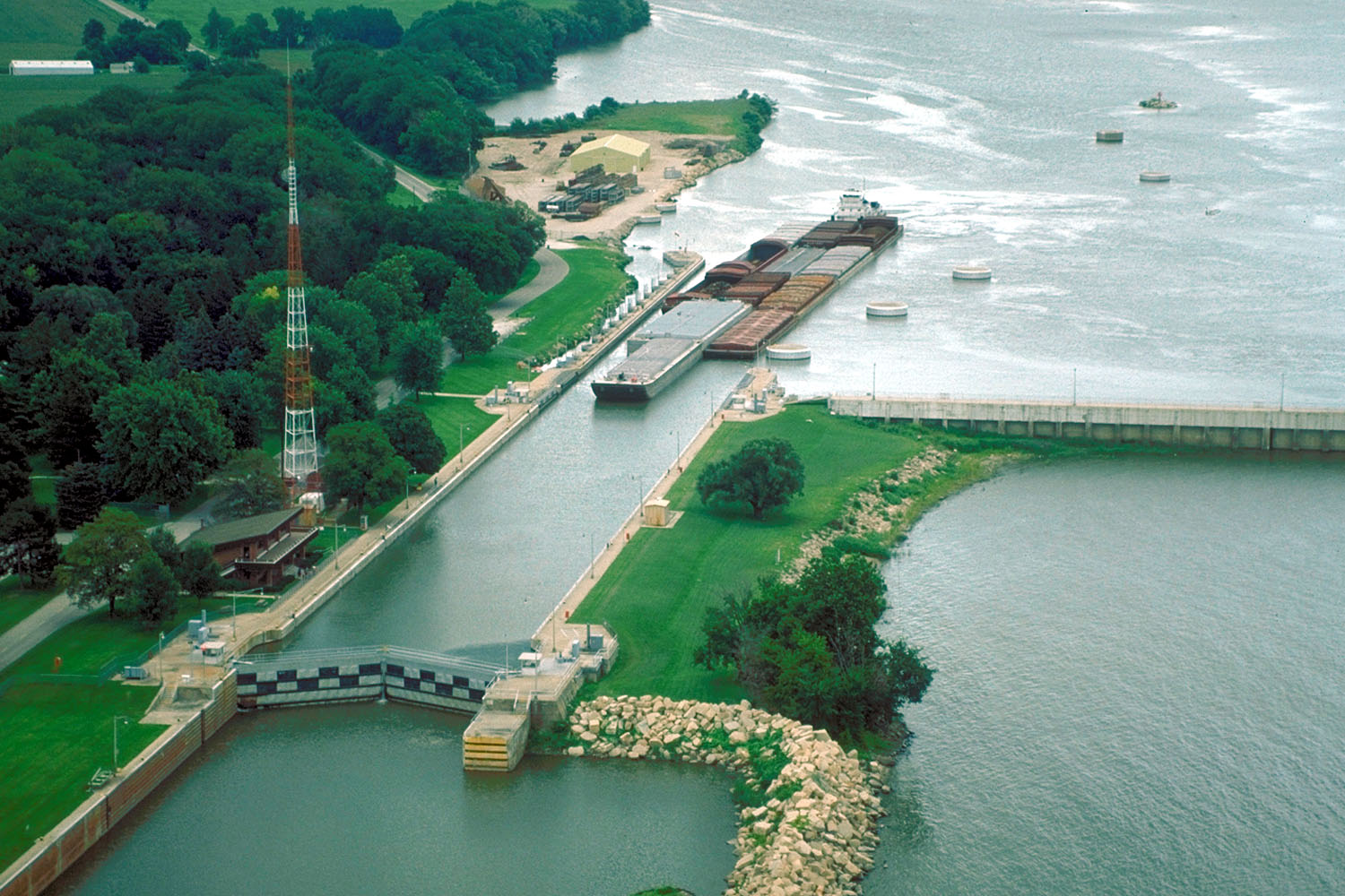 Aerial view of Starved Rock Lock and Dam on Illinois Waterway, river mile 231. Utica, Illinois, USA.